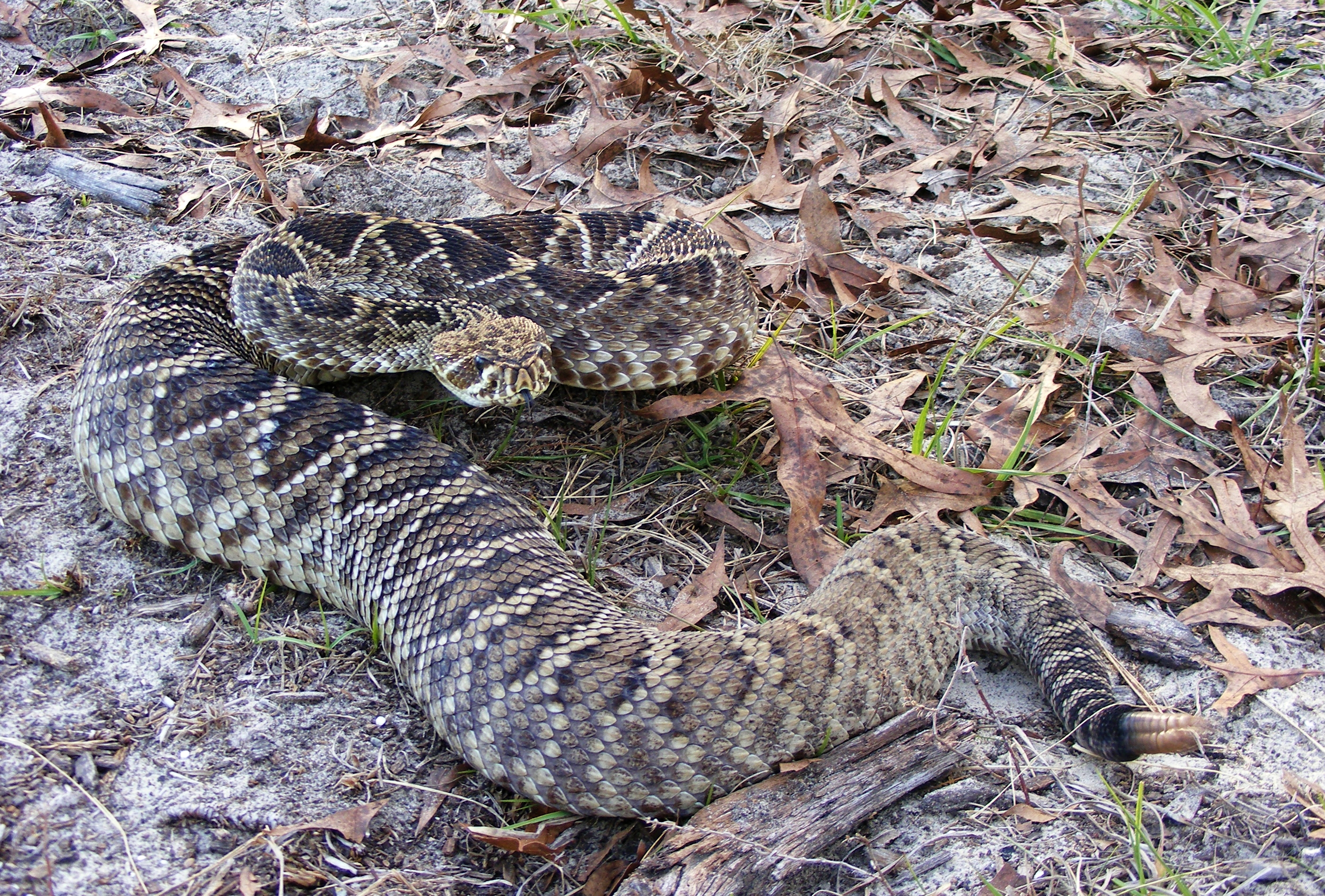 Crotalus adamanteus